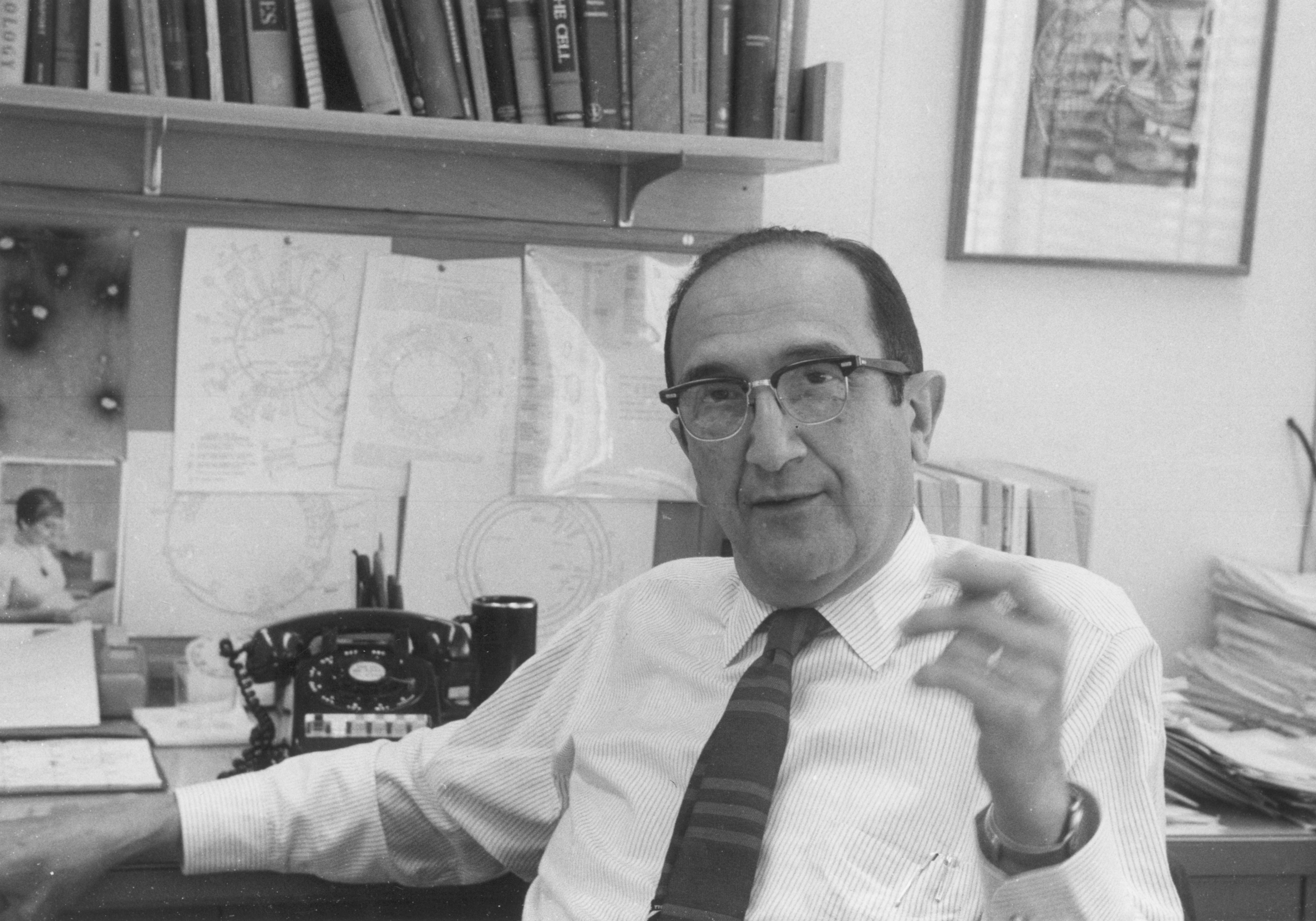 Informal photo of Luria at his desk at MIT, possibly at the time of his Nobel Prize award in 1969.